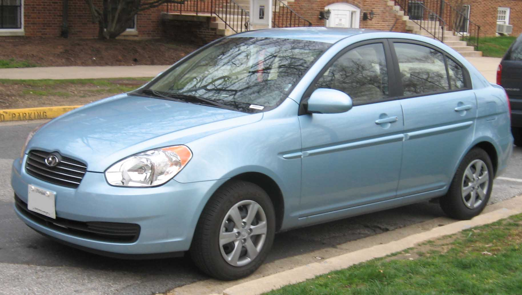 2006-2008 Hyundai Accent photographed in College Park, Maryland, USA.